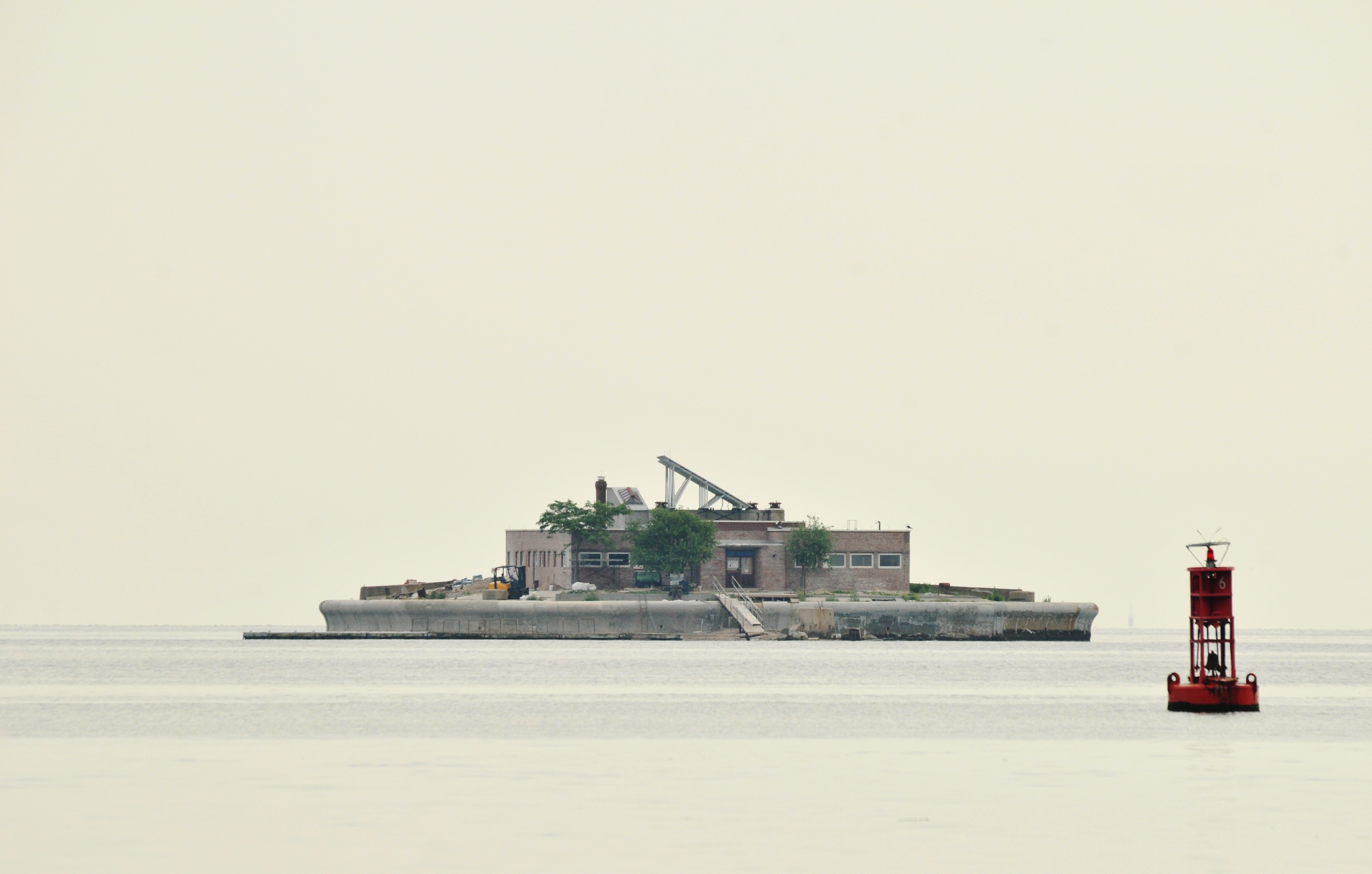 A view of Columbia Island in the Long Island Sound from Pelham Bay Park in the Bronx